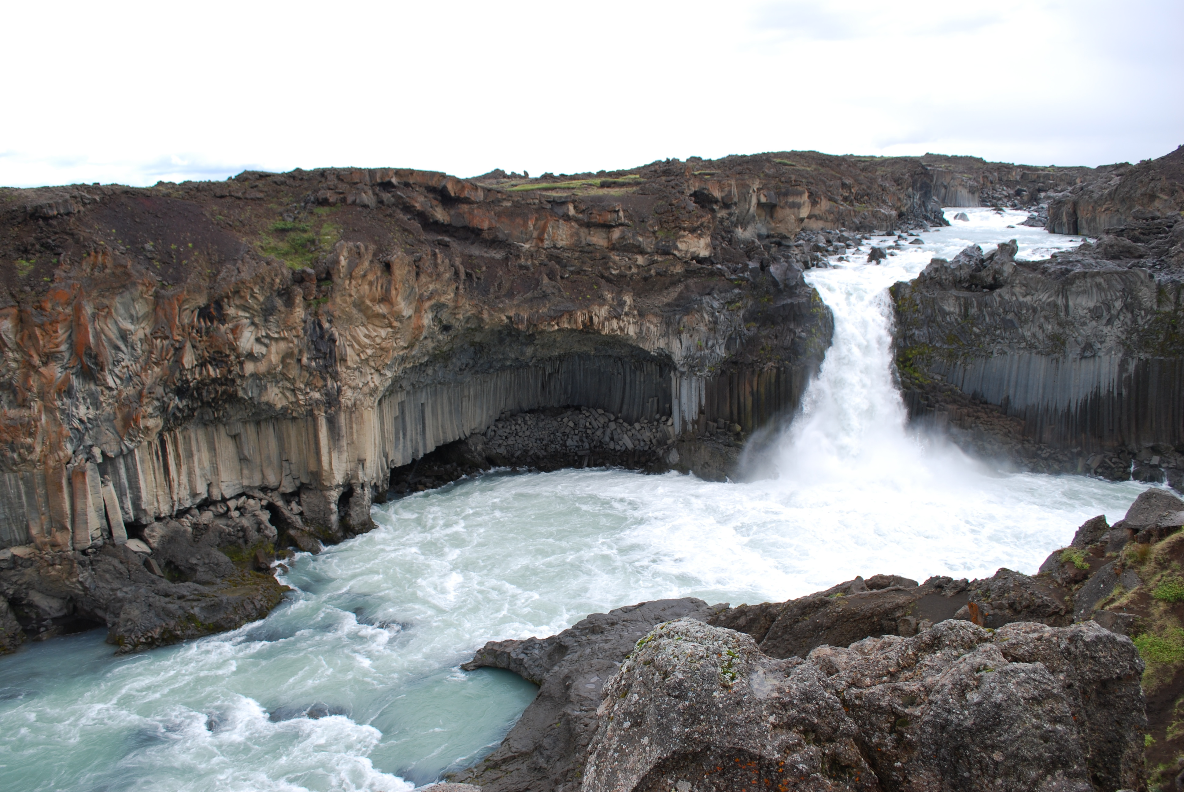 Aldeyjarfoss waterfall with black basalt columns, Iceland